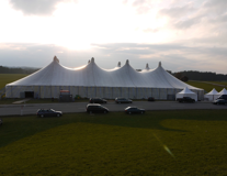 Tent of go to Goe.